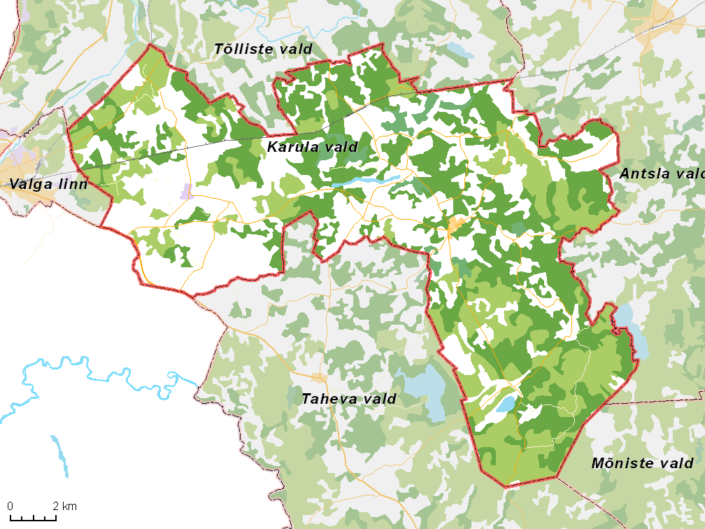 Map of municipality in Estonia